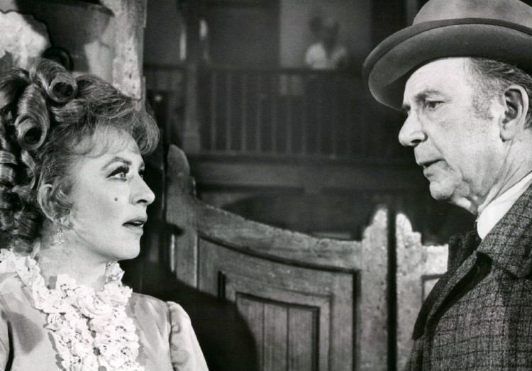 Photo of Amanda Blake as Kitty Russell and guest star Jack Albertson from the television program Gunsmoke.